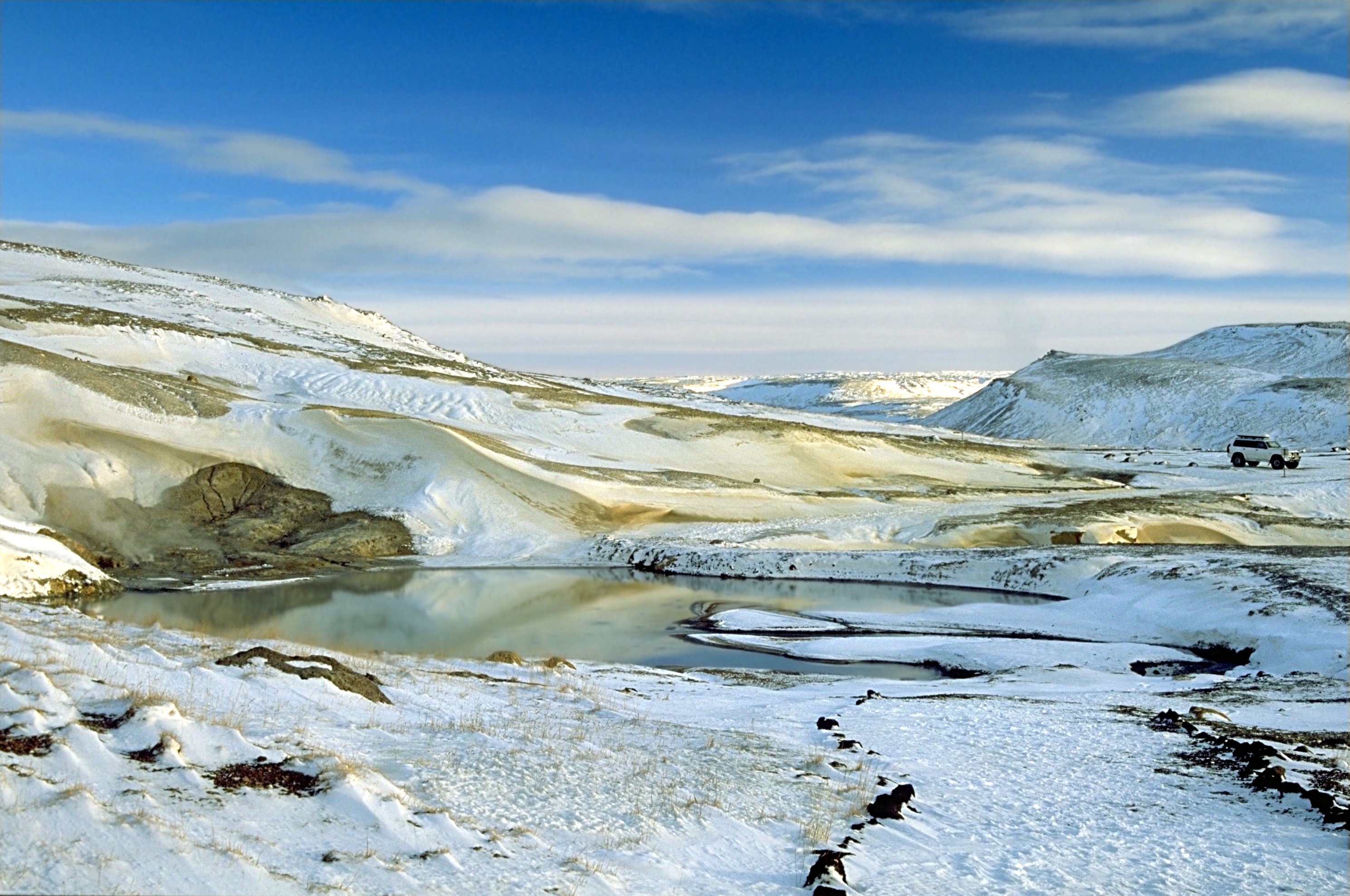 Krýsuvík in Winter, Iceland Photo was taken using the following technique: Film: Fuji Velvia Lens: 4/35-70 Filter: Polarisation Body: Minolta Dynax 7 Support: Manfrotto 190B Image with Information in English Bild mit Informationen auf Deutsch